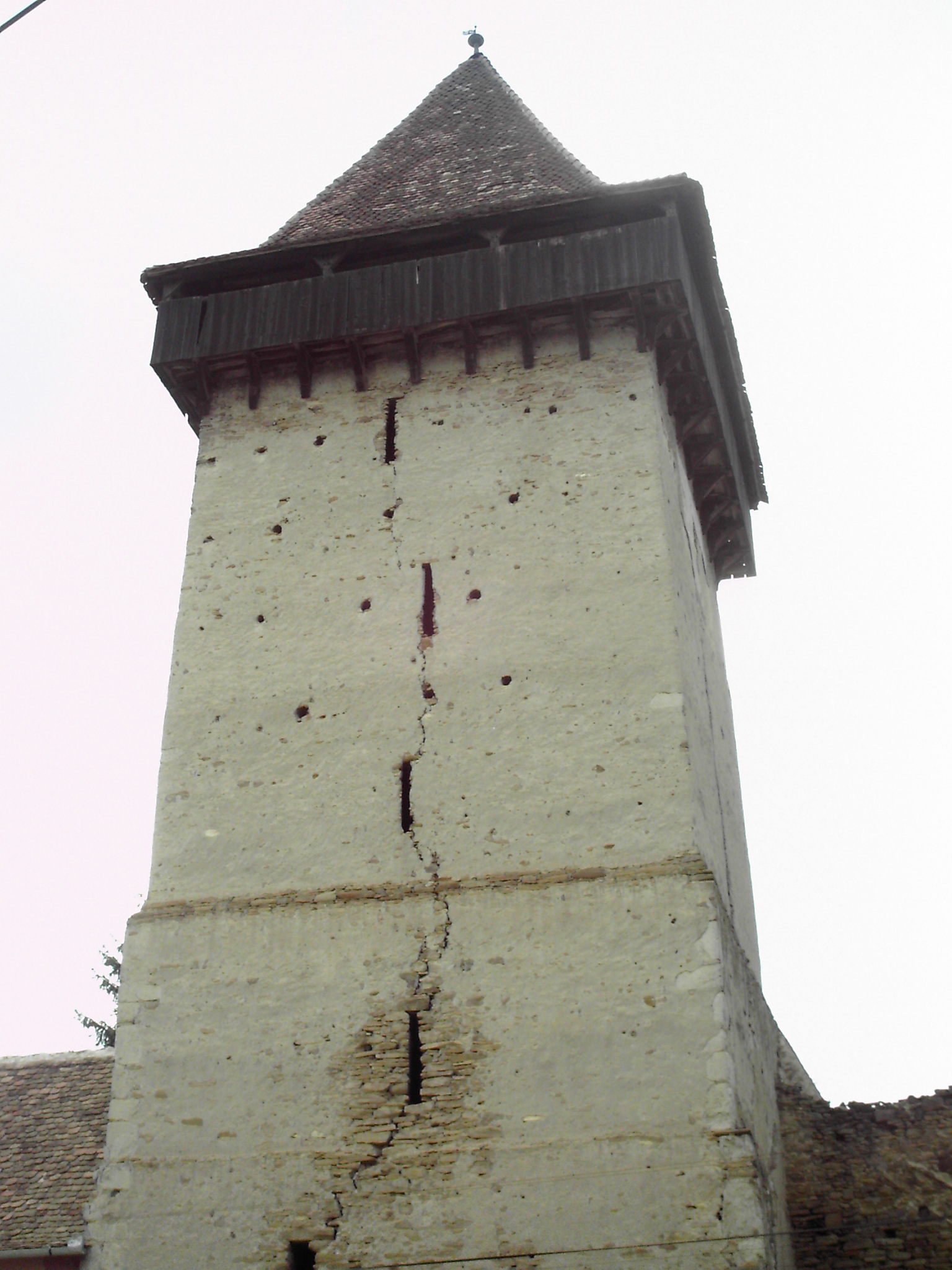 Fortified church in Valchid; the bell tower seen from the outside.